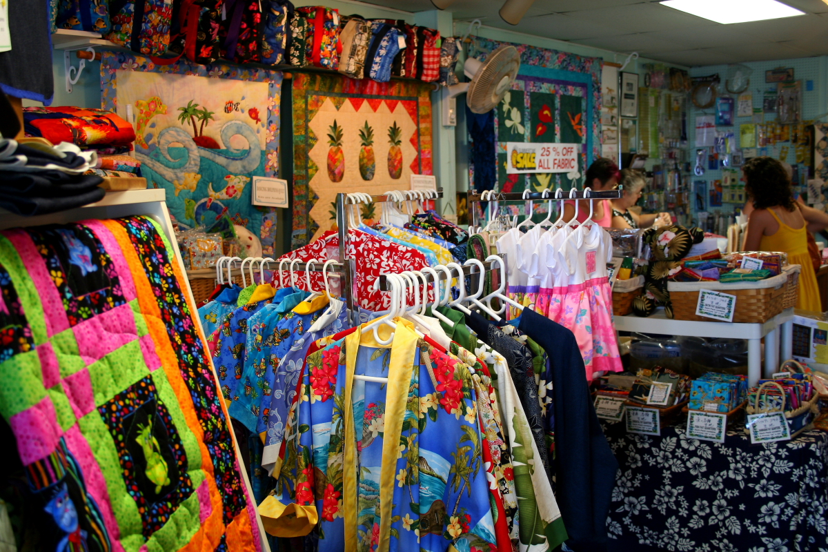 Fabric shop in Hilo, Hawaii